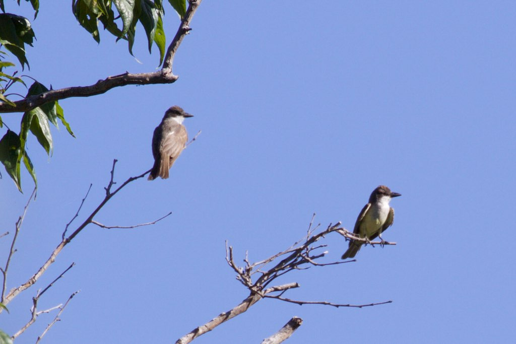 Thick-billed Kingbird (nesting pair) | Portal | AZ | 2015-08-03at09-18-4315